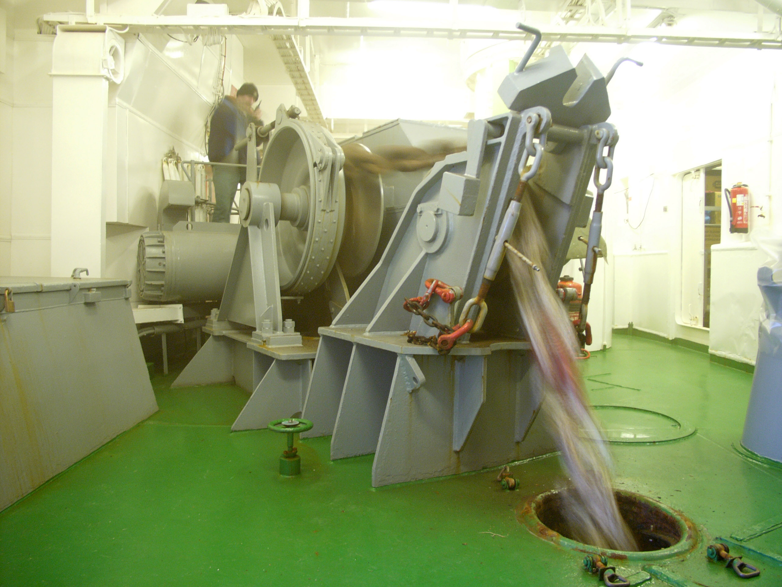 Photo from the German research vessel POLARSTERN anchor winch